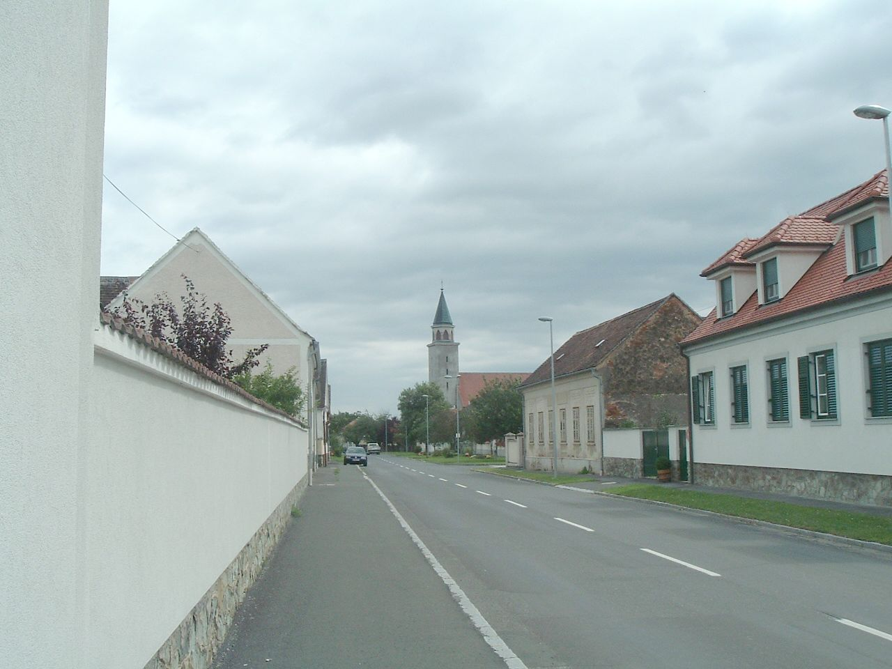 Deutsch Schützen (Németlövő), Burgenland